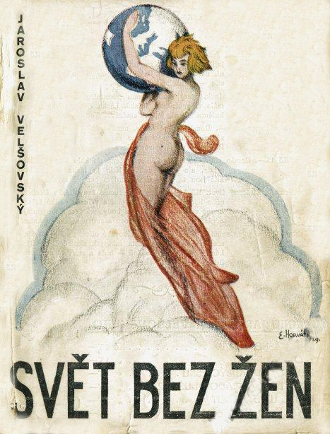 Jaroslav Velšovský: Svět bez žen (cover page of a book published 1930 in Czechoslovakia)